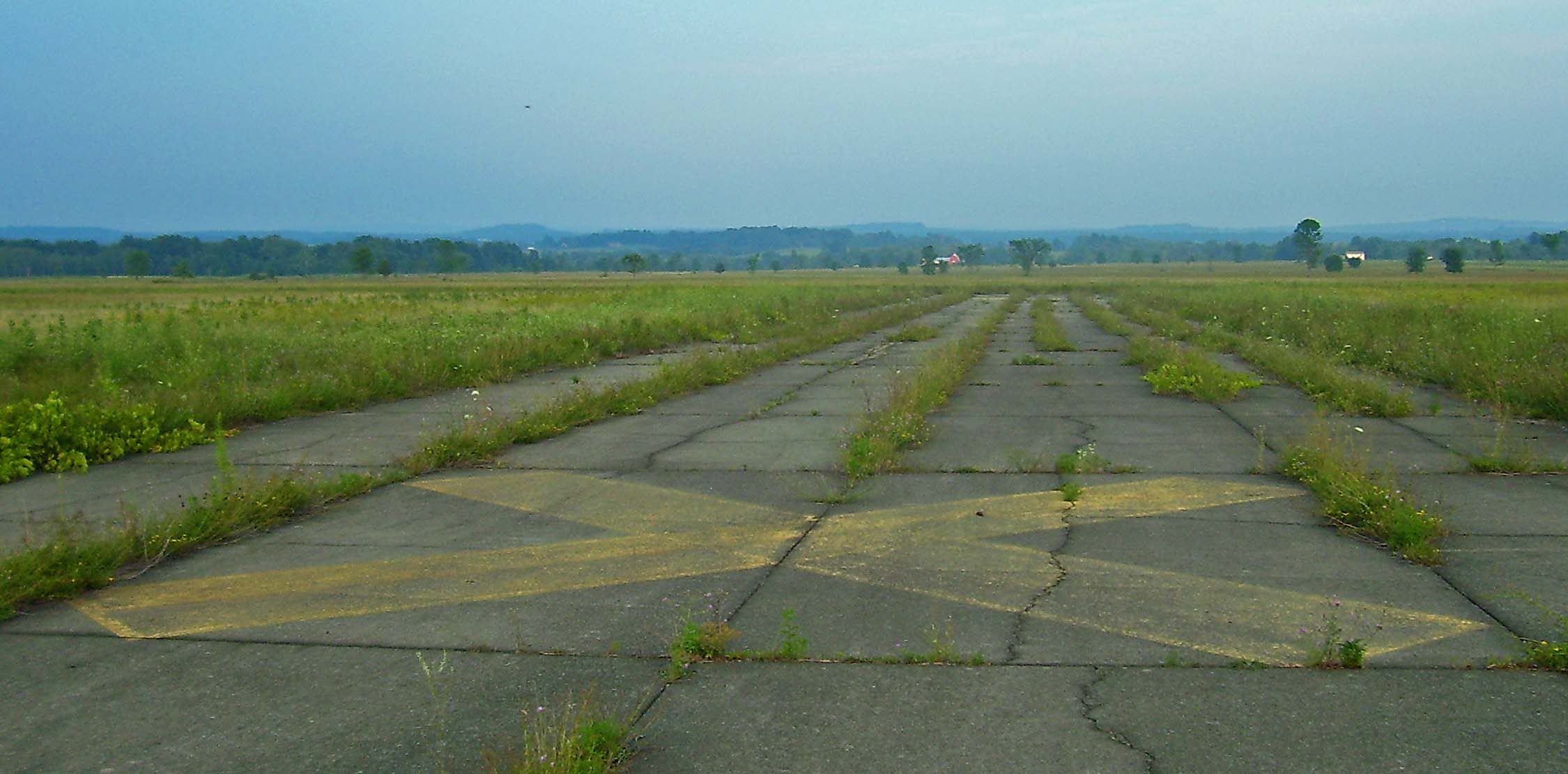 Runways of former Galeville Air Base, now Shawangunk Grasslands National Wildlife Refuge. Yellow cross indicates to aircraft that airport is officially closed.